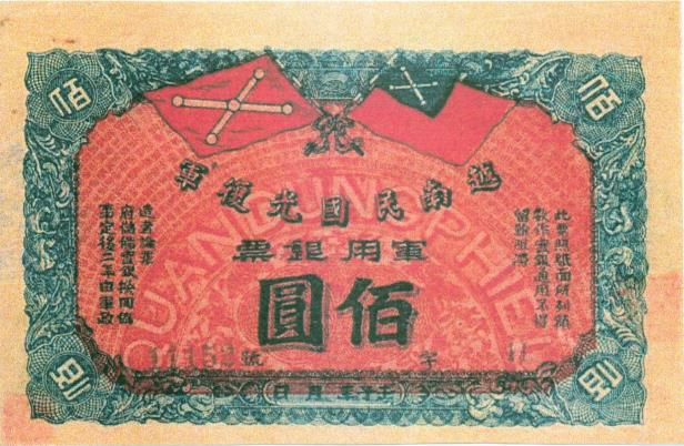 A revolutionary bond issued by the Việt Nam Quang Phục Hội in their quest for independence against the French.